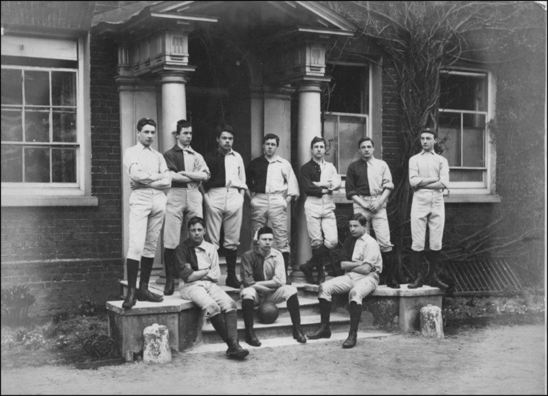 Forest School football team pictured at the front of the school in 1884. Only ten players are pictured, R. C. Guy (Captain, future Forest headmaster), F. R. Pelly (standing second from the left, future England football player).